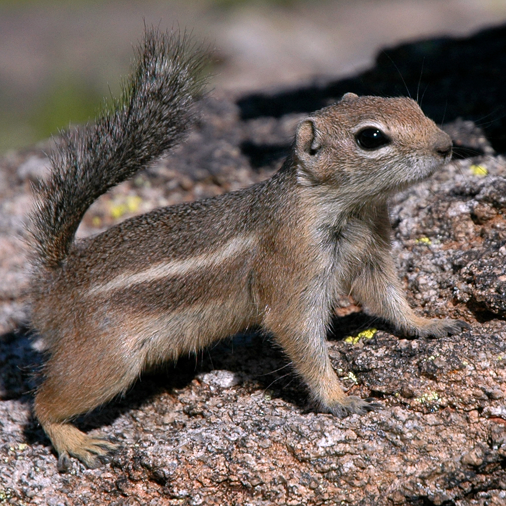 Antelope squirrel, South Mountain Park, Phoenix, Arizona. The range of Ammospermophilus harrisii species.